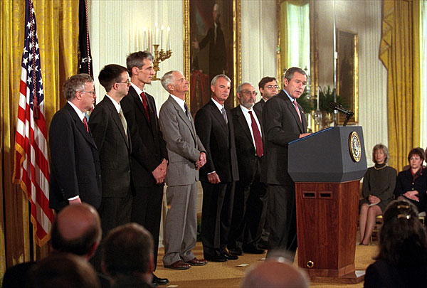 President George W. Bush meets with the 2001 Nobel Prize recipients, Nov. 27, 2001. From left to right are Dr. George Akerlof, 2001 Nobel Prize in Economic Sciences; Dr. Eric Allin Cornell, 2001 Nobel Prize in Physics; Dr. Wolfgang Ketterle, 2001 Nobel Prize in Physics; Dr. William Standish Knowles, 2001 Nobel Prize in Chemistry; Dr. Michael Spence, 2001 Nobel Prize in Economic Sciences; Dr. Joseph Stiglitz, 2001 Nobel Prize in Economic Sciences; Dr. Carl Wieman, 2001 Nobel Prize in Physics